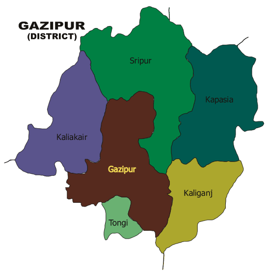 it is a maps of sub districts